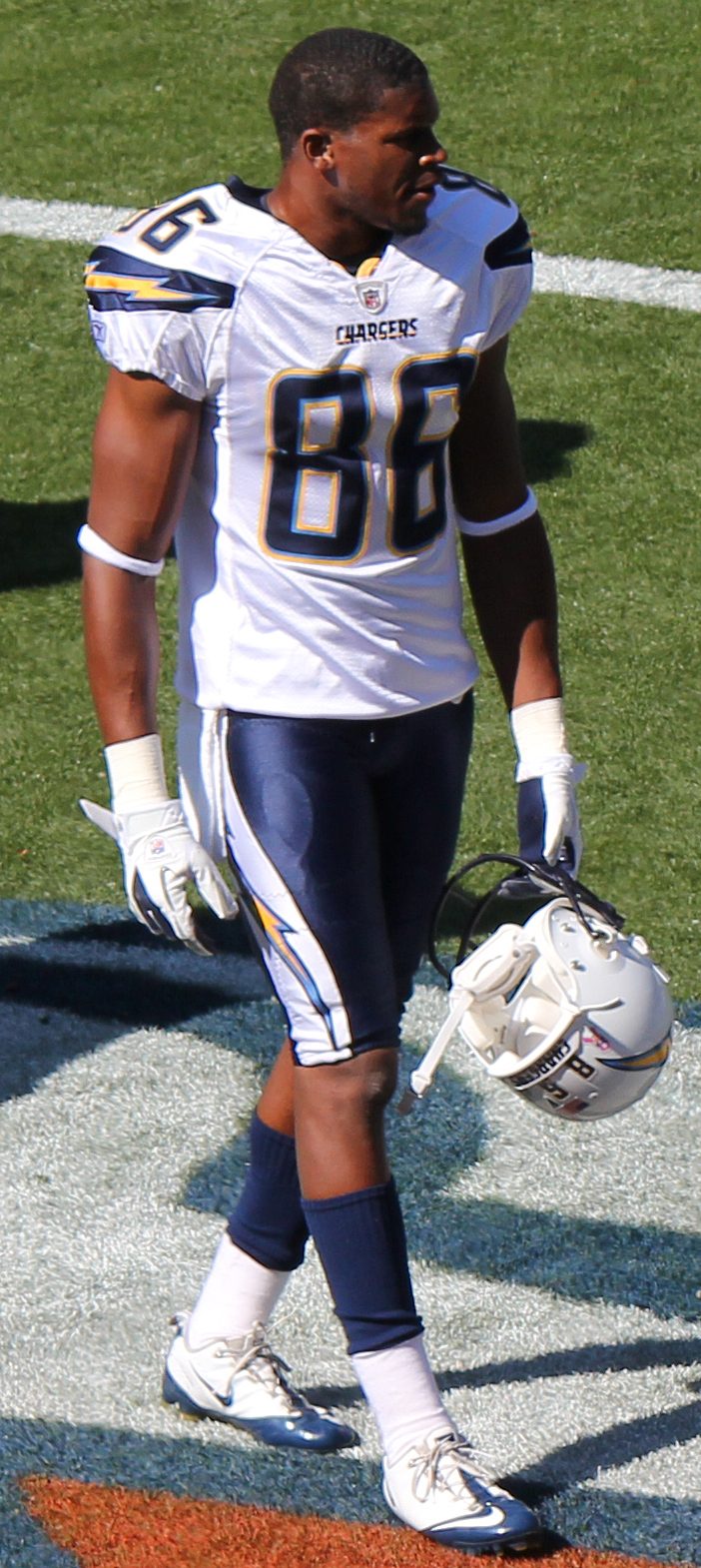 Vincent Brown, a player on the National Football League.